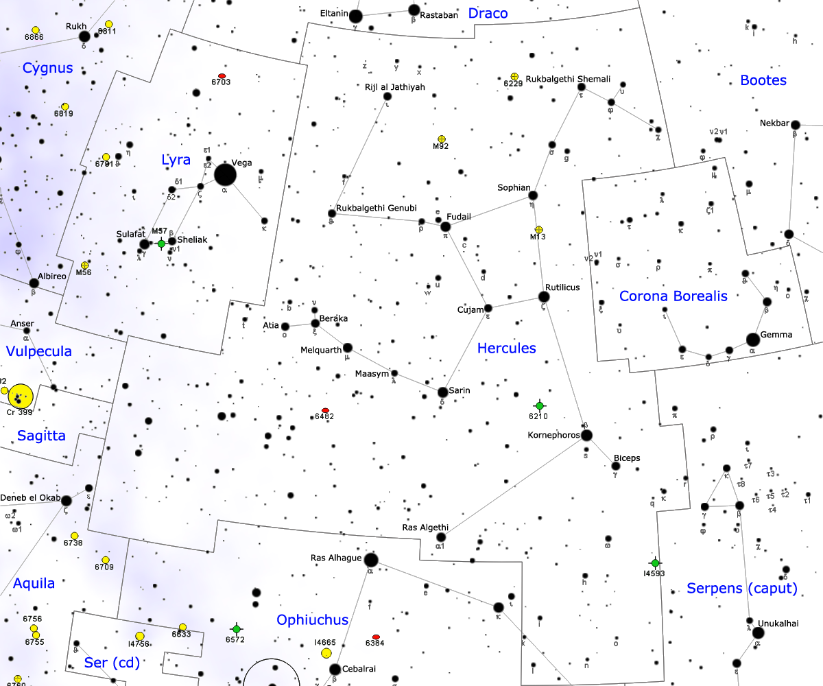 Map of Hercules